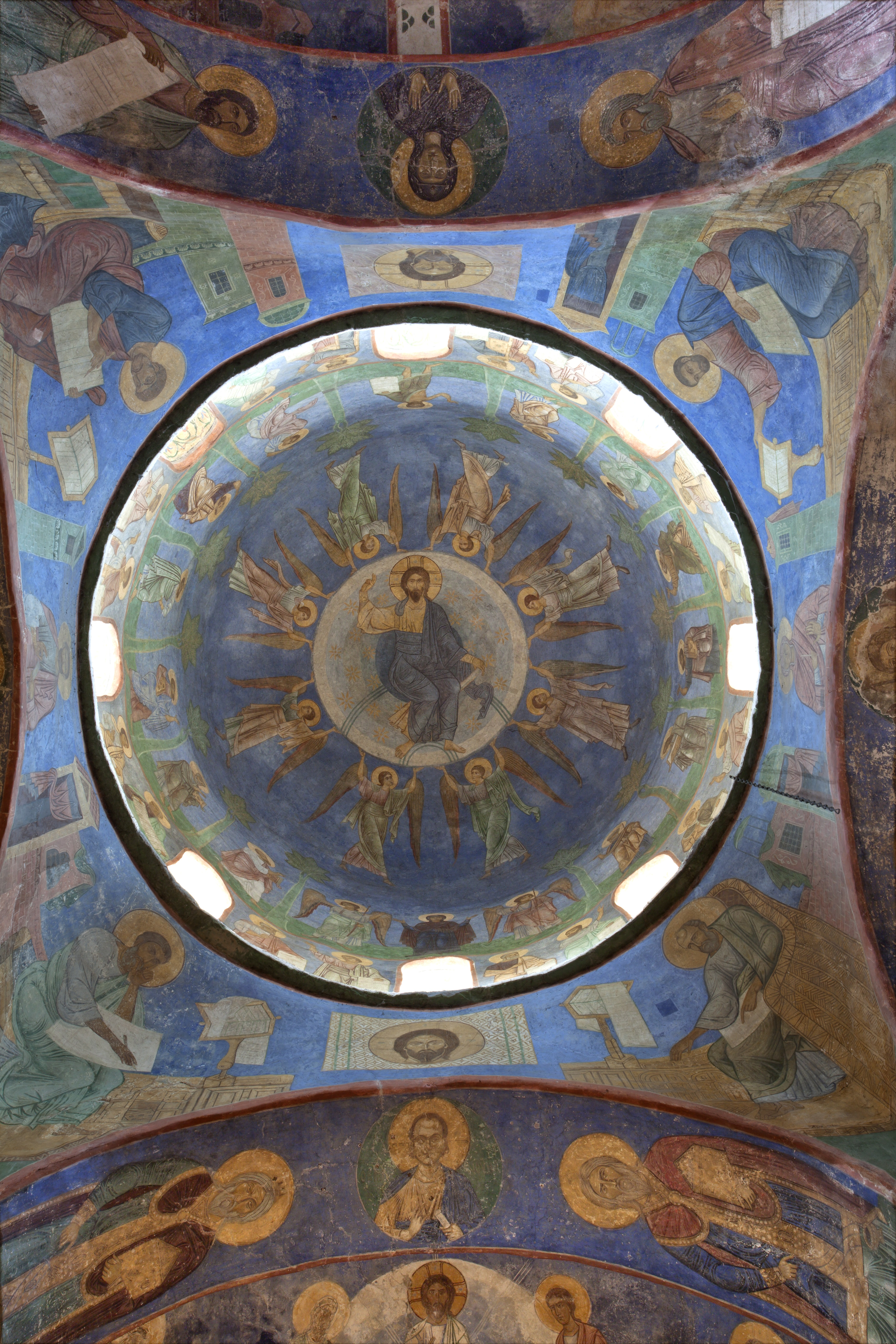 The Dome of Transfiguration Cathedral of the Mirozhsky Monastery, Pskov, Russia